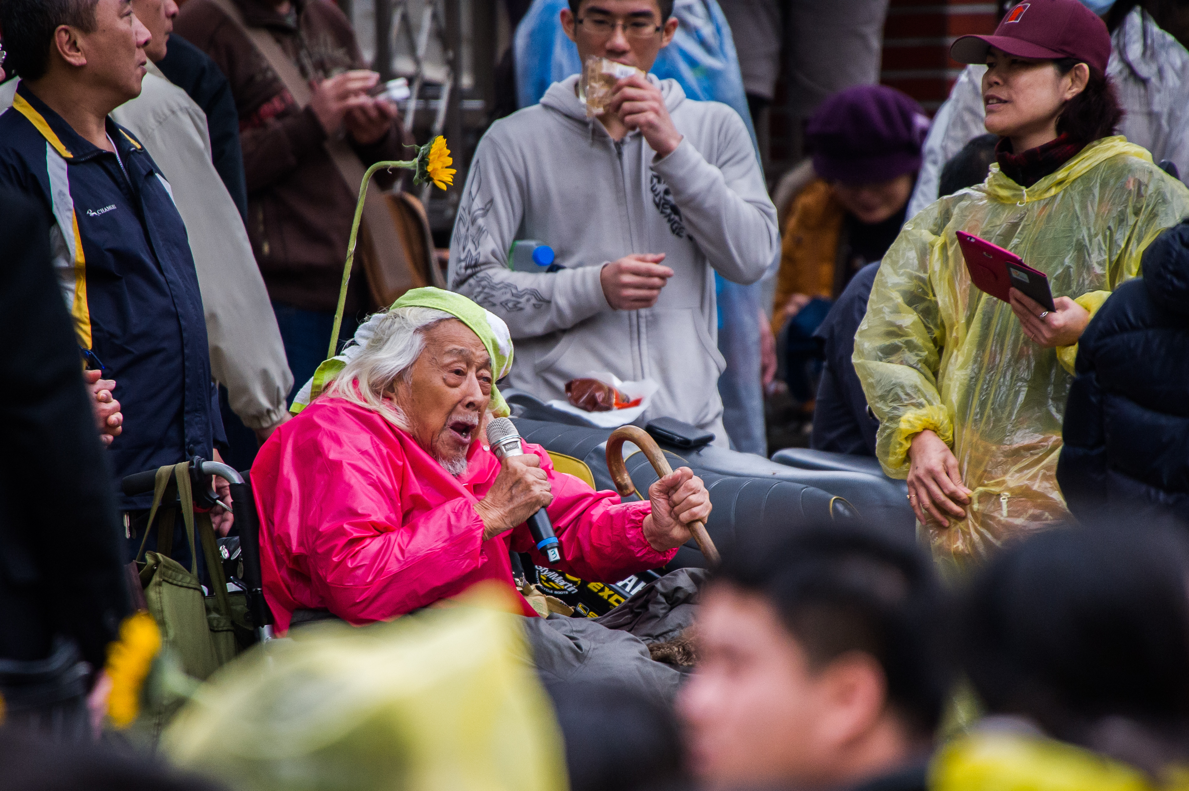 DSC_8743 Sunflower Movement